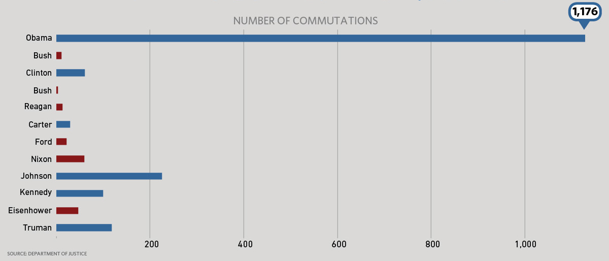 Today, President Obama granted clemency to 231 deserving individuals — the most individual acts of clemency granted in a single day by any president in this nation’s history. With today’s 153 commutations, the President has now commuted the sentences of 1,176 individuals, including 395 life sentences. The President also granted pardons to 78 individuals, bringing his total number of pardons to 148. Today’s acts of clemency — and the mercy the President has shown his 1,324 clemency recipients — exemplify his belief that America is a nation of second chances.